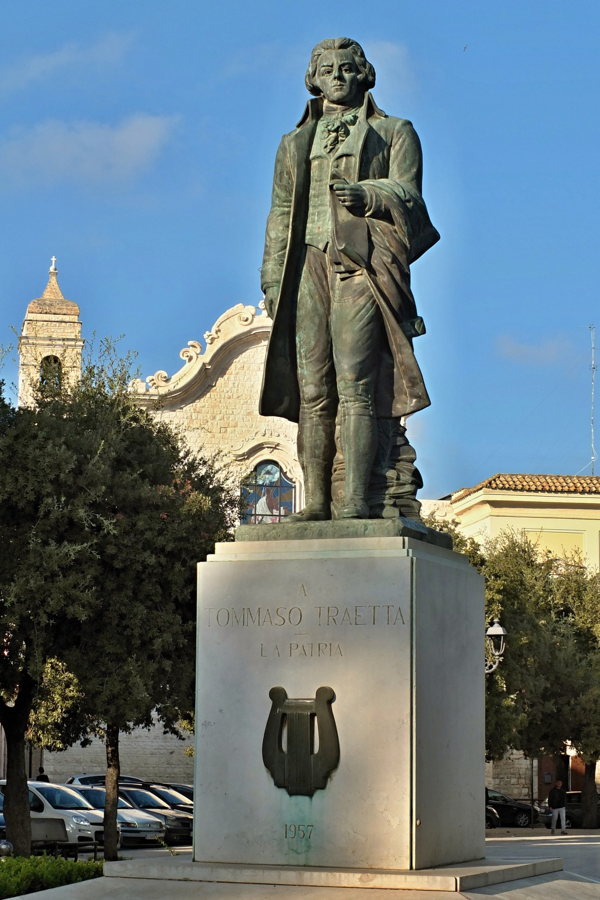 Statue of Tommaso Traetta (* March 30, 1727 in Bitonto; † April 6, 1779 in Venice) in Bitonto, Piazza Aldo Moro, erected in 1957